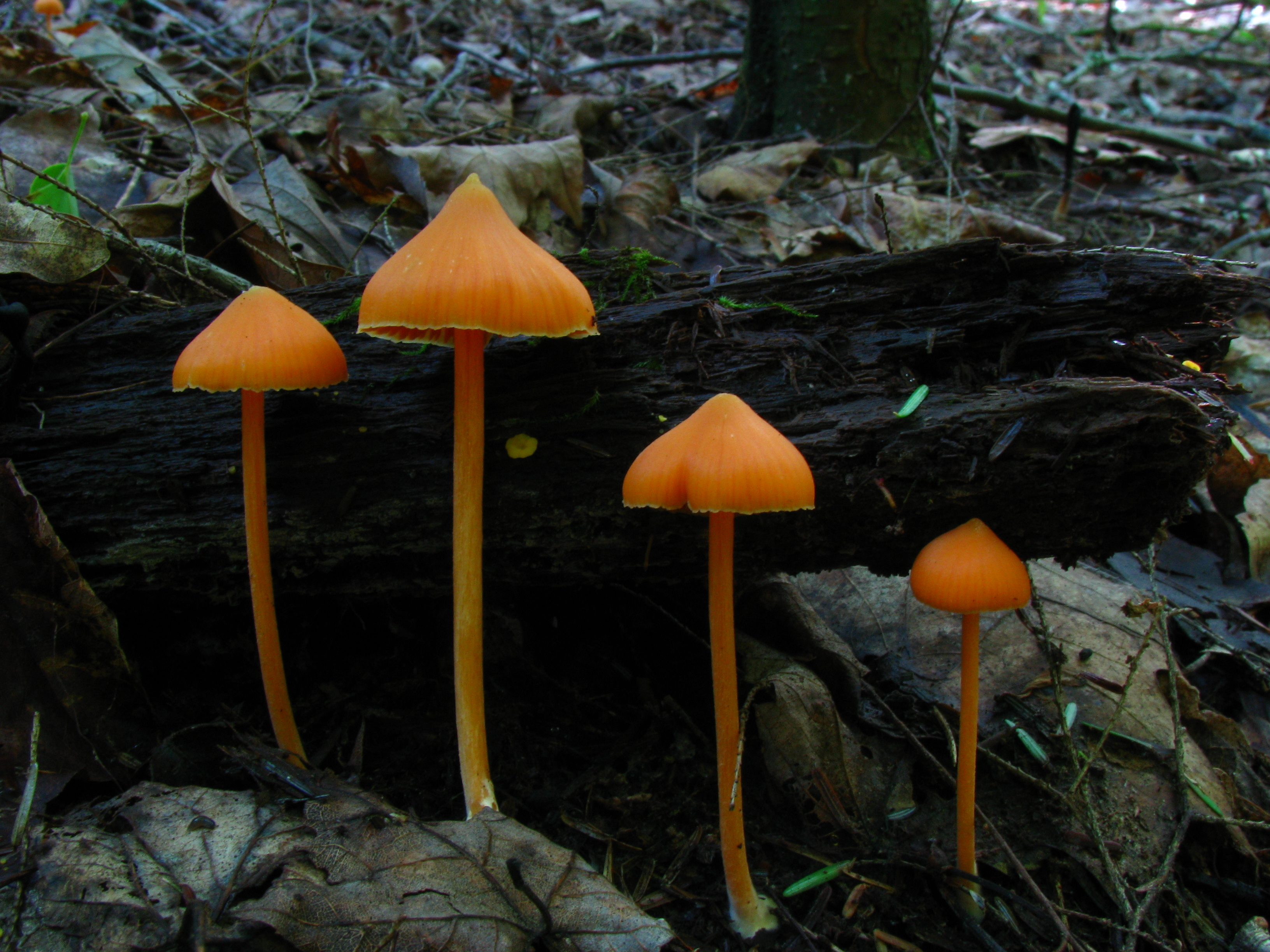 Entoloma salmoneum (Peck) Sacc. Location: Carnifex Ferry Battlefield State Park, Nicholas Co., West Virginia, USA For more information about this, see the observation page at Mushroom Observer.